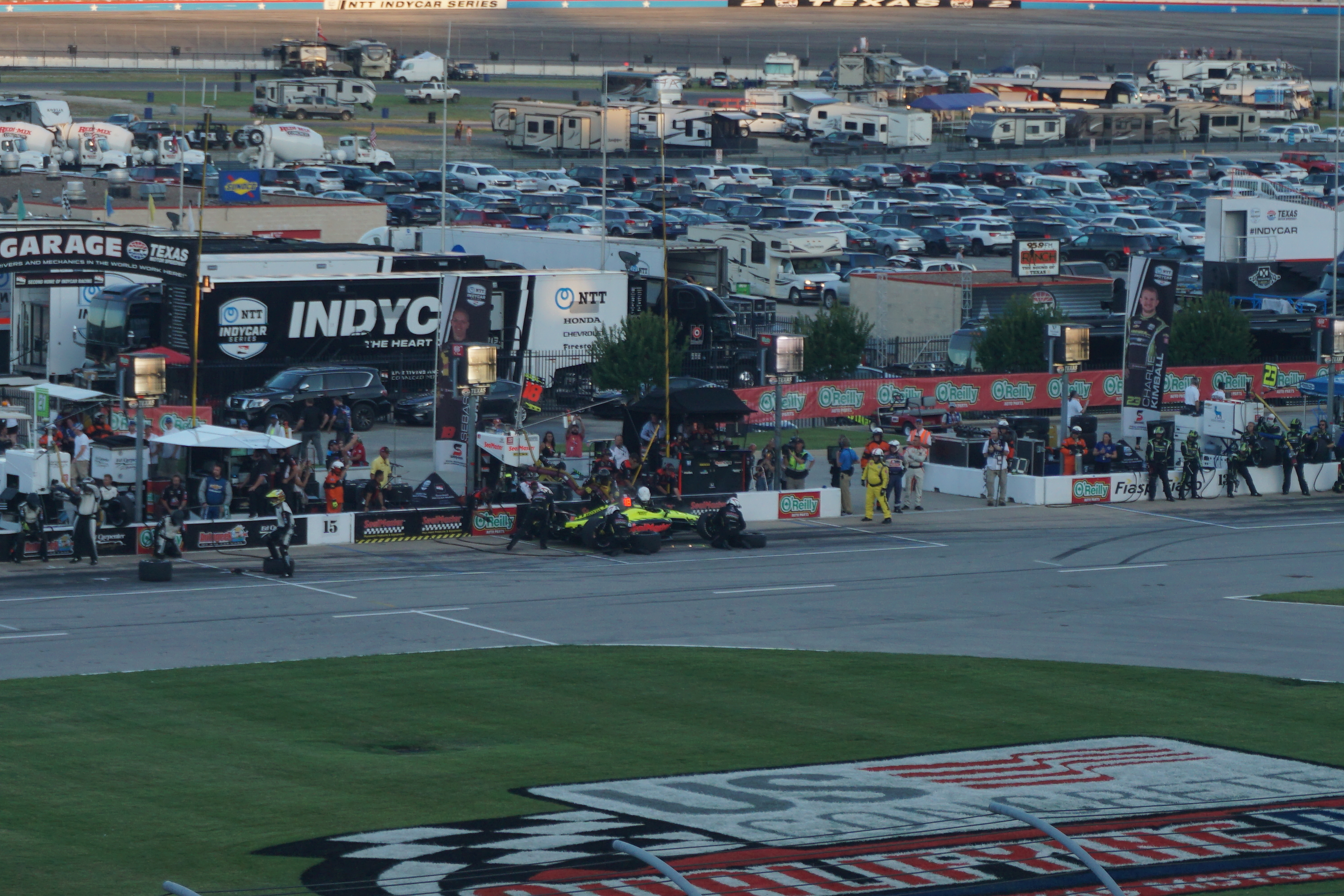 Sébastien Bourdais making a pit stop during the 2019 DXC Technology 600 at Texas Motor Speedway in Fort Worth, Texas (United States).